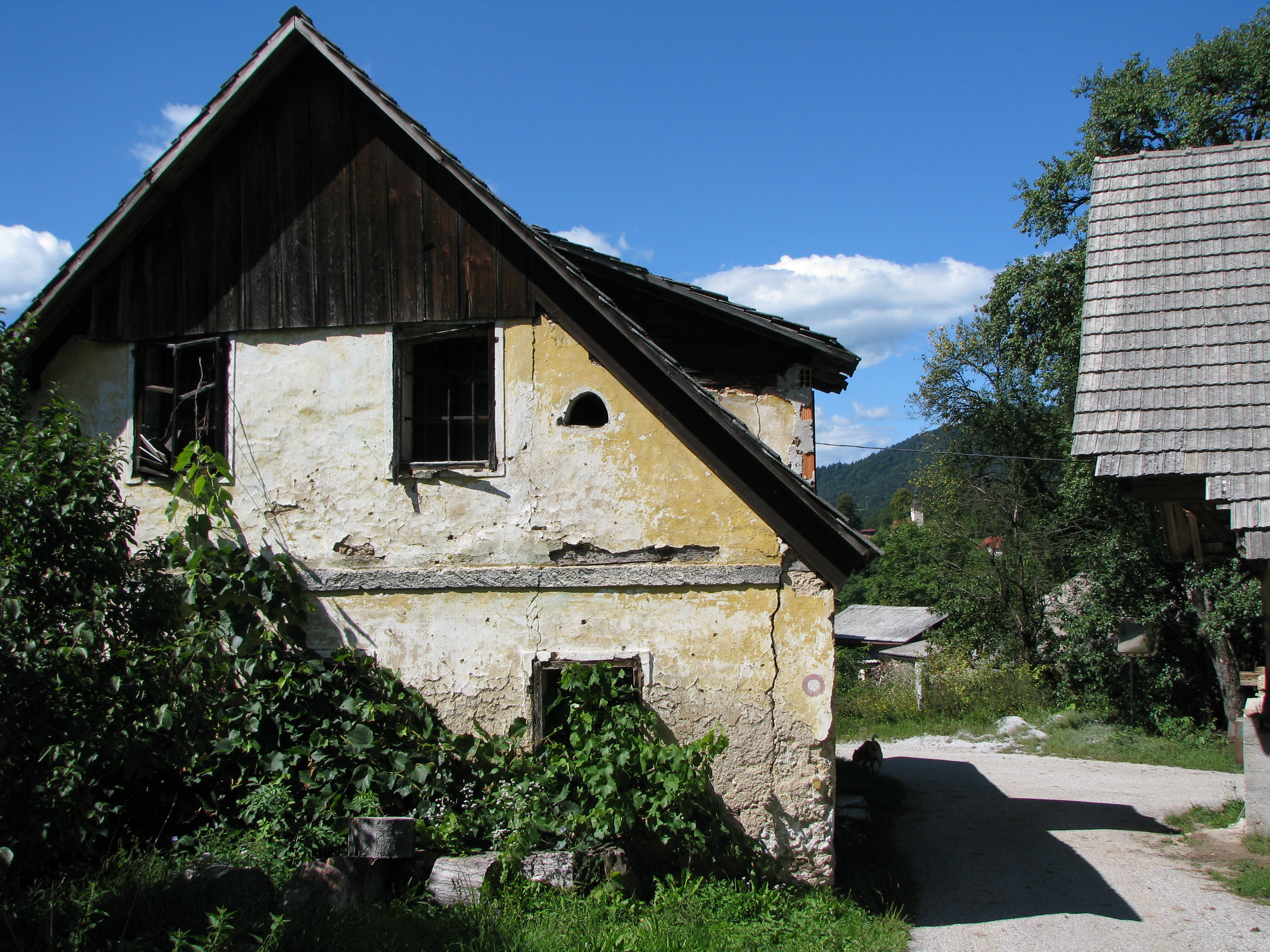 Old house in the village of Kolk, Slovenia. In the background, Holy Spirit Church in Senožeti.